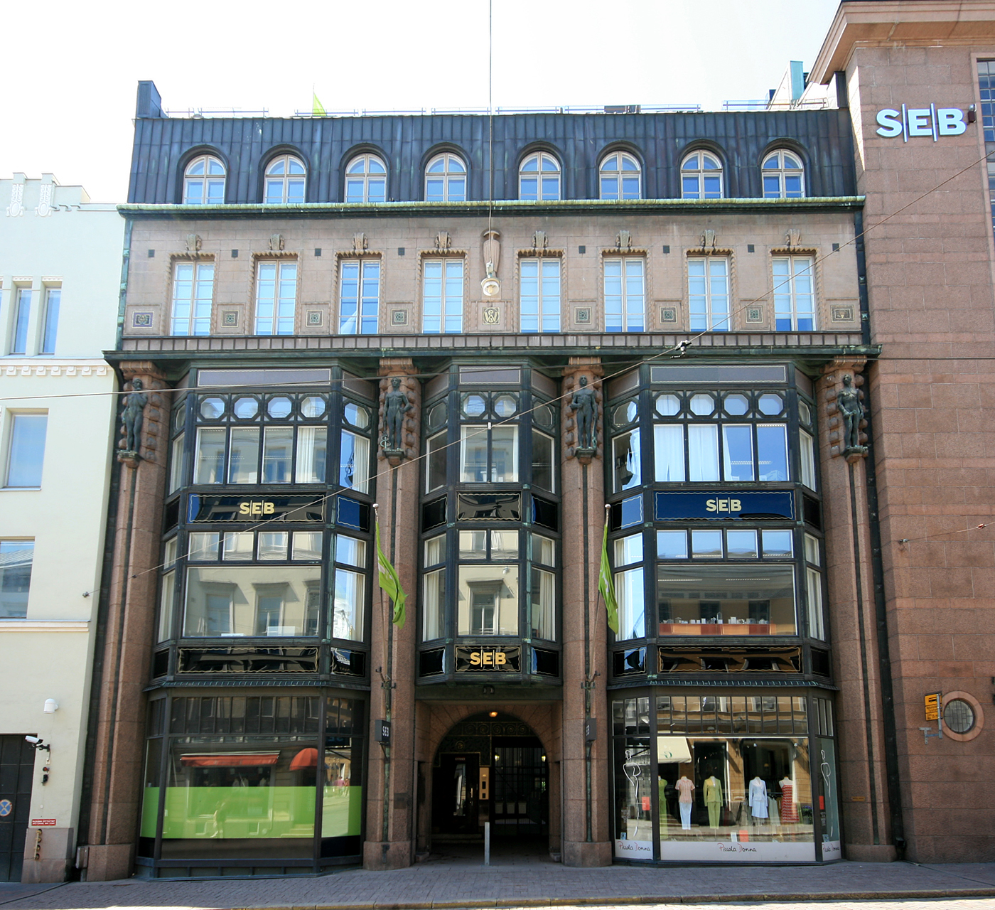 «Wuorio», Unioninkatu 30, Helsinki. Architect: Herman Gesellius. Built 1909. The orginal building had three floors. Extension was built at 1914 and designed at 1912 by architect Armas Lindgren.